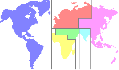 This a recreation of the map used by The British Broadcast Corporation News, showing the six world divisions of its news coverage. The original map was a blank free use map I found on a website that said it released all copyright rights for the free blank world map and other blank maps it had on its site. I recolored it and added the divisions in accordance with the map on the BBC News website. It is intended for use on the BBC News article to illustrate the world divisions it uses or the Asian article to further affirm that West Asia is not considered part of Asia in some people's minds. This is different from my last version because it is lighter in color. The other version was colored too dark to see the text overlayed on it.--DarkTea 03:38, 18 January 2007 (UTC)